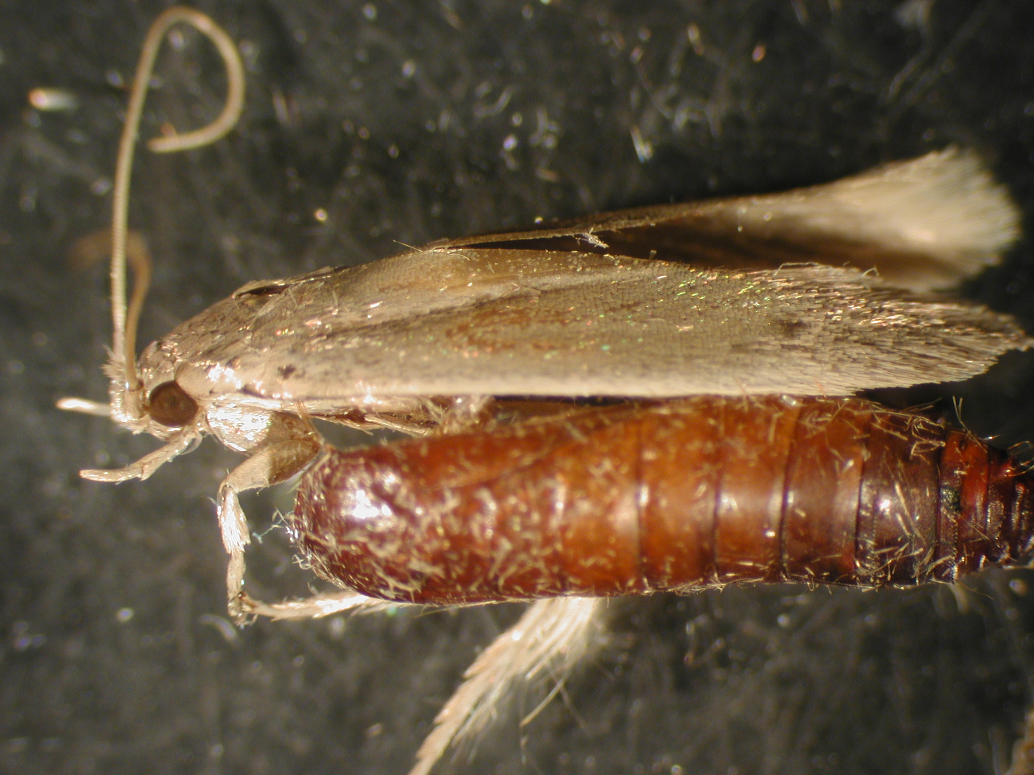 Banana moth (Opogona sacchari), adult and larval case.